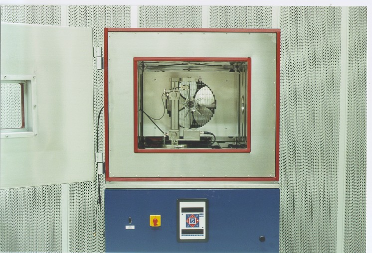 Heat/cold test chamber (Weiss brand). Temperature range: -70 °C to +130 °C. Test space volume: 64 L. An Oberst Apparatus is placed in the chamber.